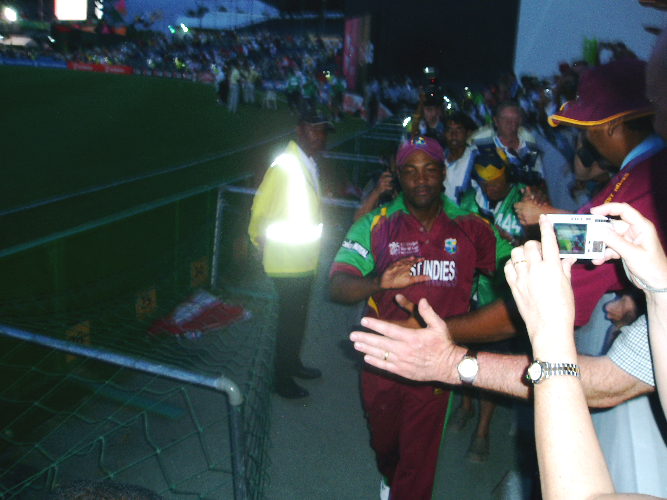 Brian Lara's final match - the lap of honour